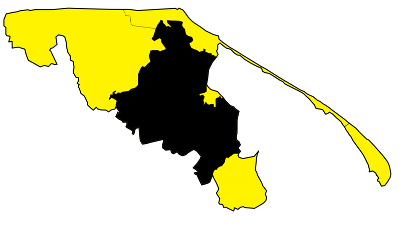 administrative division of pucki (Puck) poviatship - gminas - Puck gmina (rural one) Author: Krzysztof Created with Inkscape